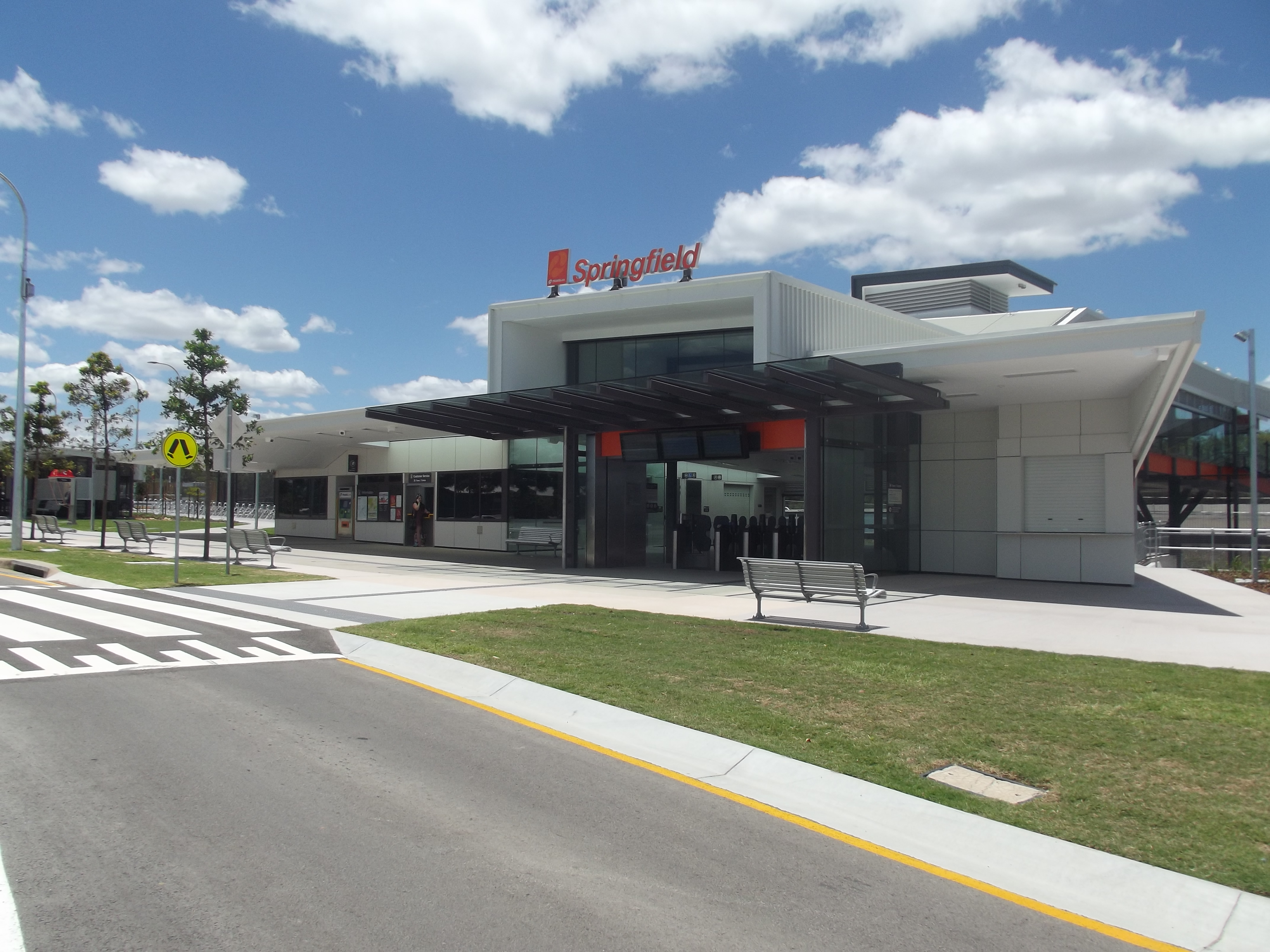 The brand new Springfield station, part of the Springfield line in Brisbane.